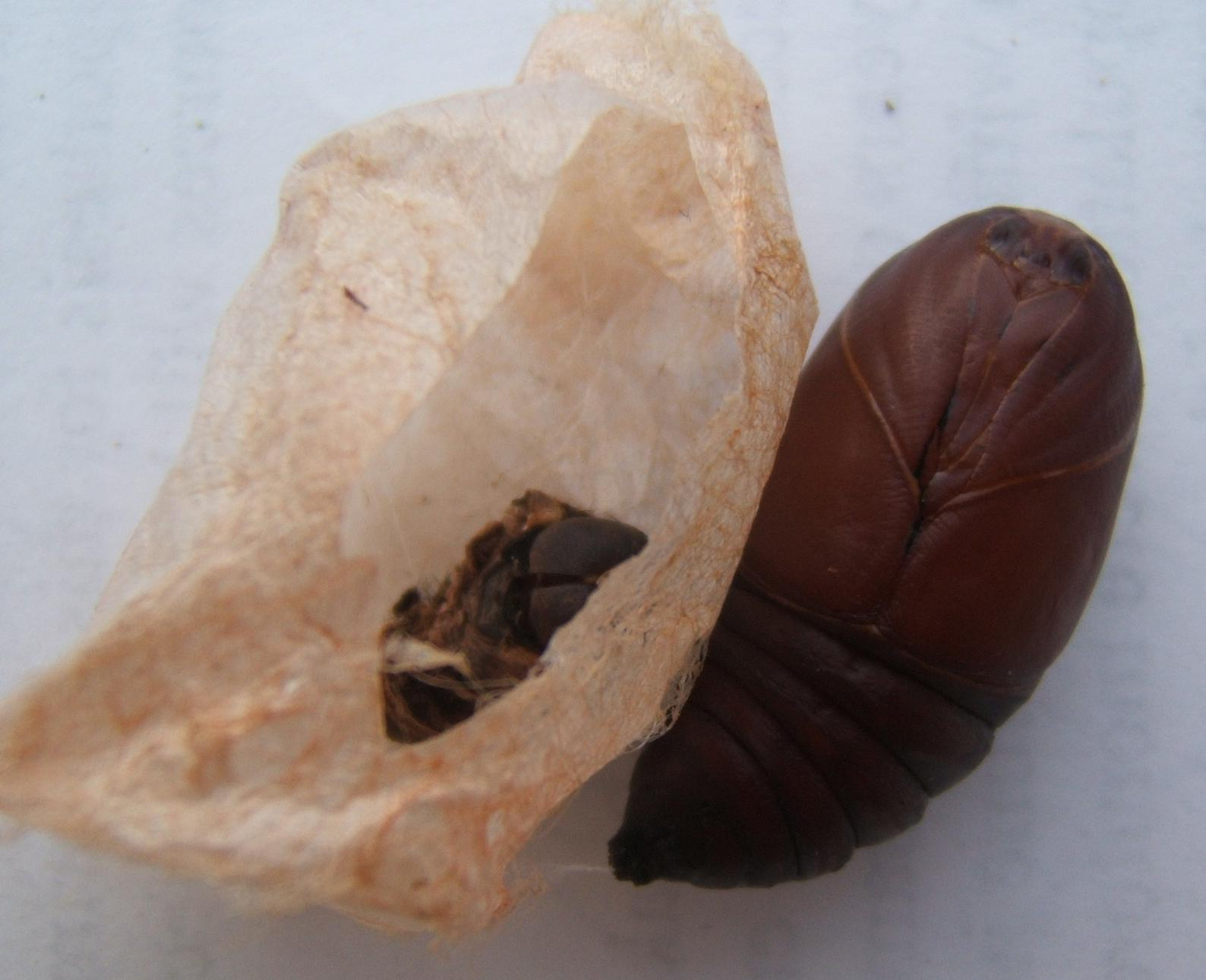 Actias luna pupa taken by Shawn Hanrahan. Reared on American Sweetgum.